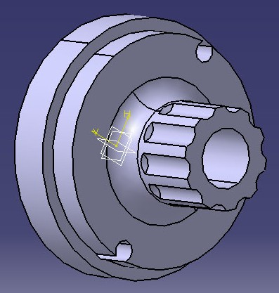 A simple CAD part